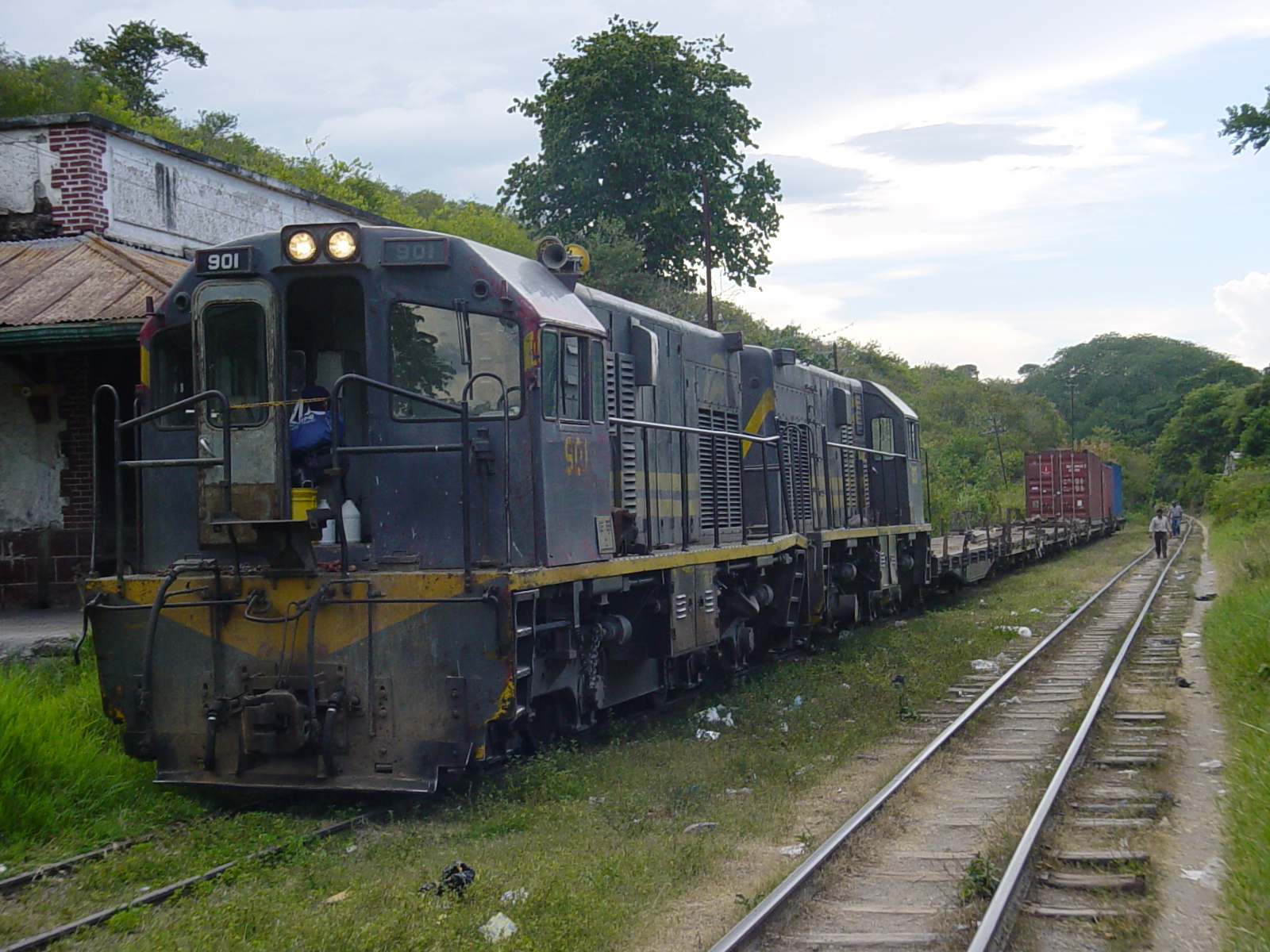 Freight train of Ferrovías Guatemala, heading towards El Rancho, waits in Sanarate to meet an opposite train. The diesel engine has serial number 901 and was made in Spain.